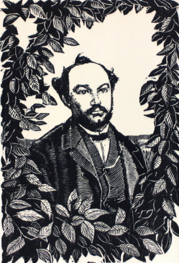 Wood carving of J. D. Beauvais, founder of the first canned food factory in Denmark.